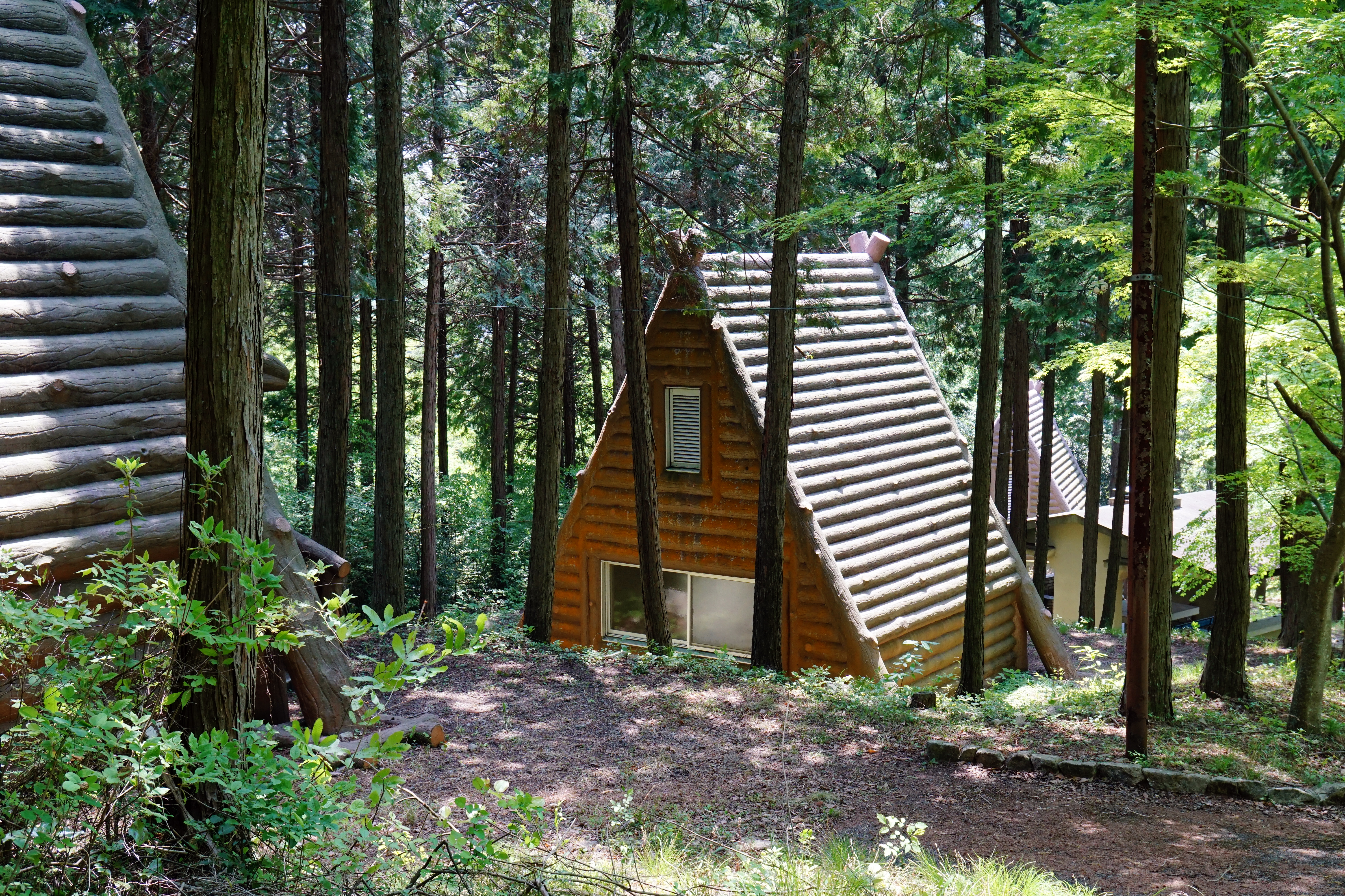 Tamba Traditional Art Craft Park Sue no Sato in Sasayama, Hyogo prefecture, Japan.